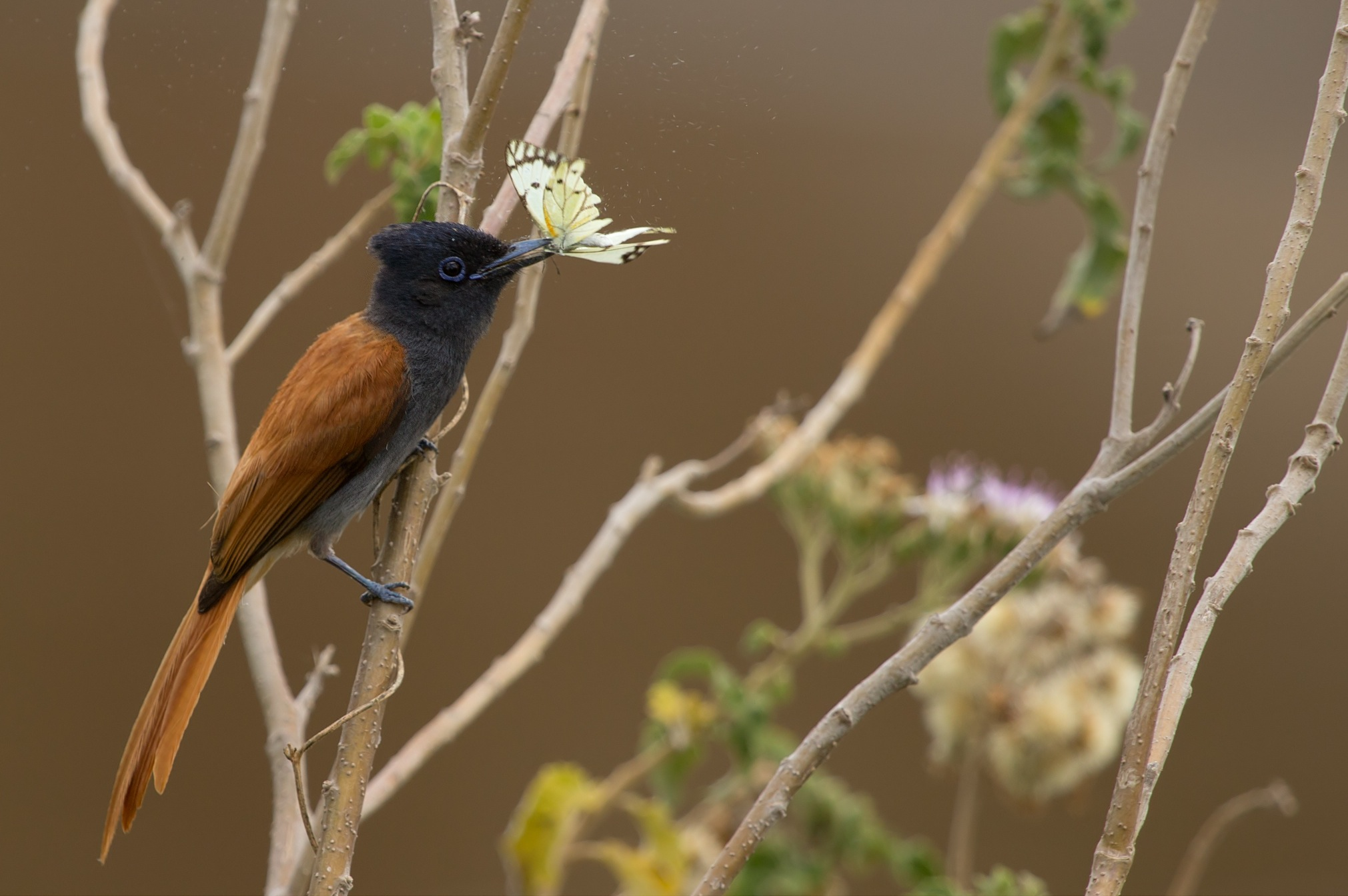 With a butterfly catch at Maasai Mara